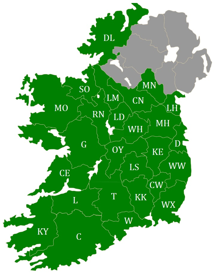 Irish vehicle registration areas